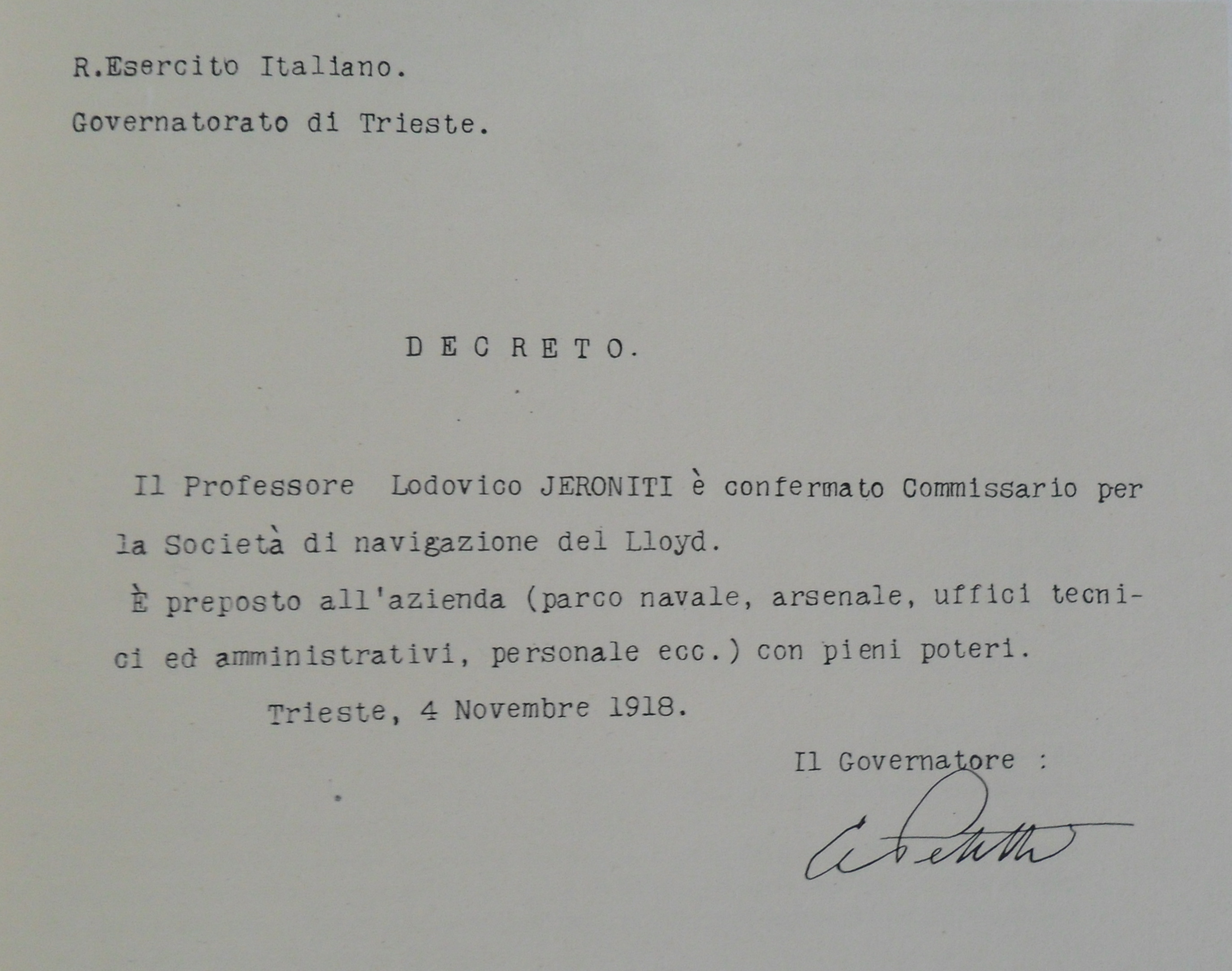 Decree of the appointment of Prof. Jeroniti as director of the Lloyd on 1918/11/04